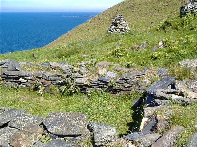 Lag ny Keeilley, Keeill on Cronk ny Arrey Laa. Means hollow of the chapel, in the distance can be seen the 'tail' of Niarbyl.